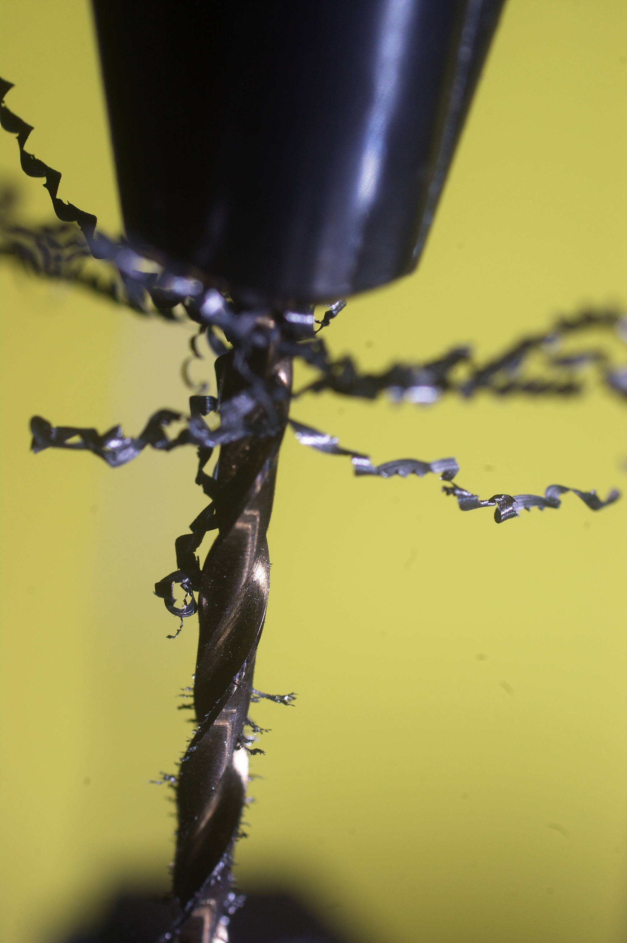 A drill bit with some steel swarf. For comparison the size of the bit is 2 mm.